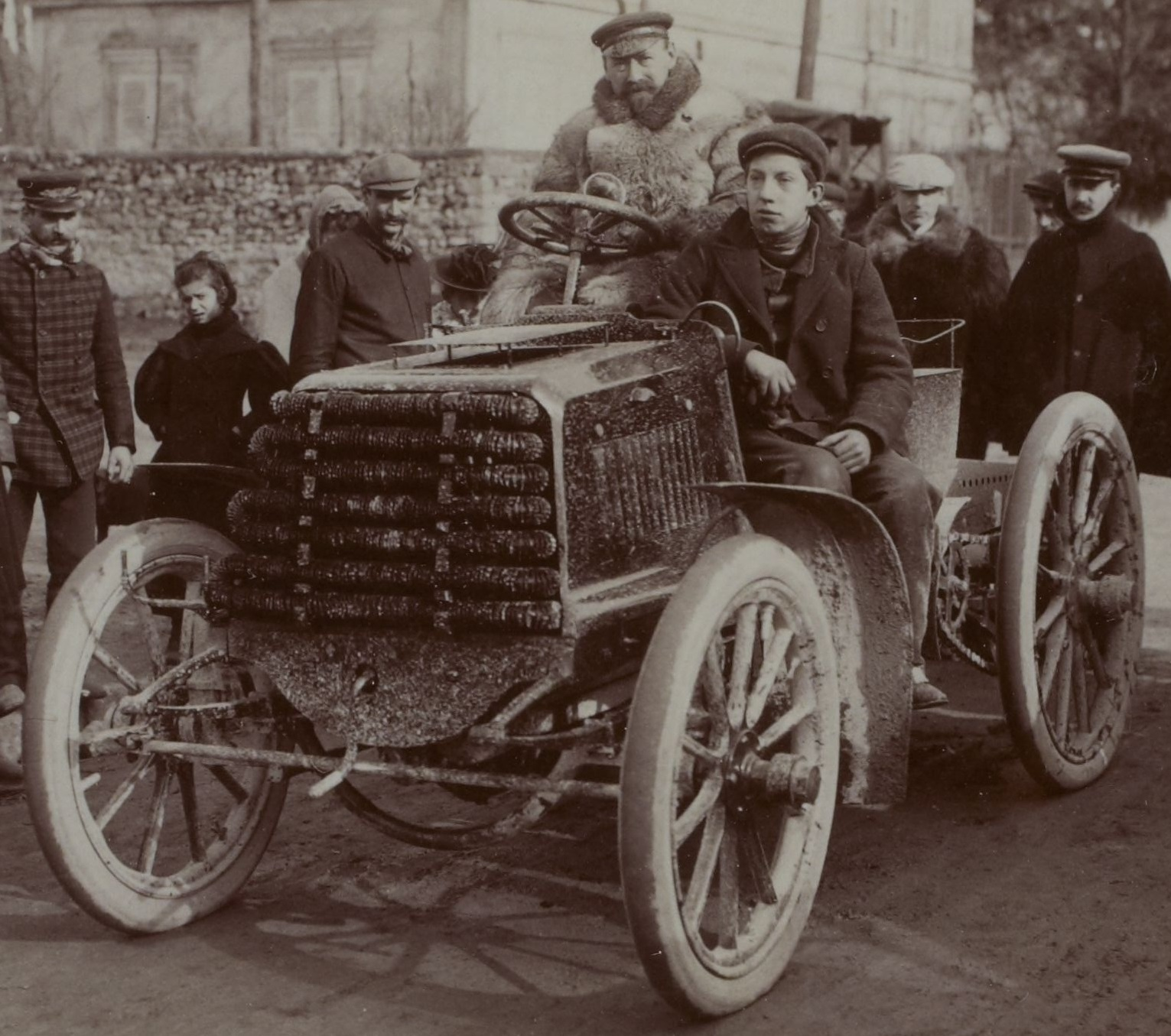 [Collection Jules Beau. Photographie sportive] : T. 10. Année 1899 / Jules Beau : F. 46v. [Course du Catalogue, Melun]